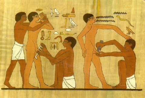 adult circumcision, drawing of a tomb/wall painting from Ankhmahor, Sakkara (Saqqarah), Egypt. Oldest known illustration of circumcision